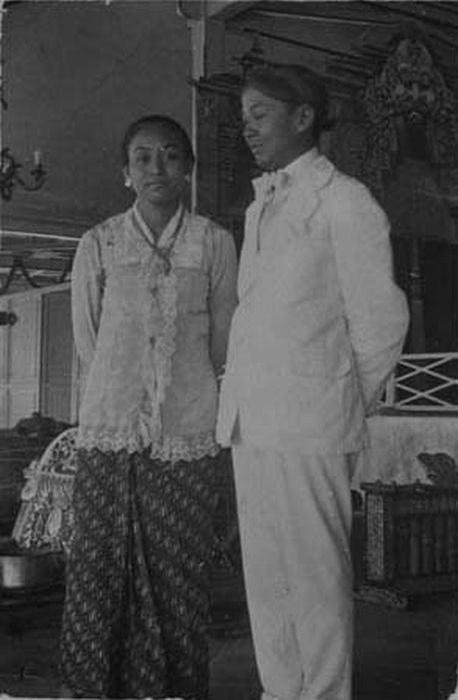 Partini and Hoesein Djajadiningrat in the palace of her father Prang Wedono (Mangku Negoro VII) at Solo